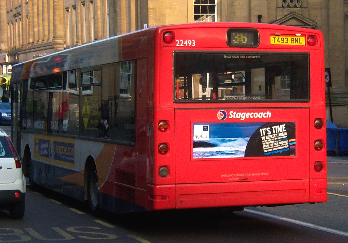 The rear of Stagecoach in Newcastle 22493 (T493 BNL), a MAN 18.220/Alexander ALX300, in Newcastle upon Tyne, on route 36.